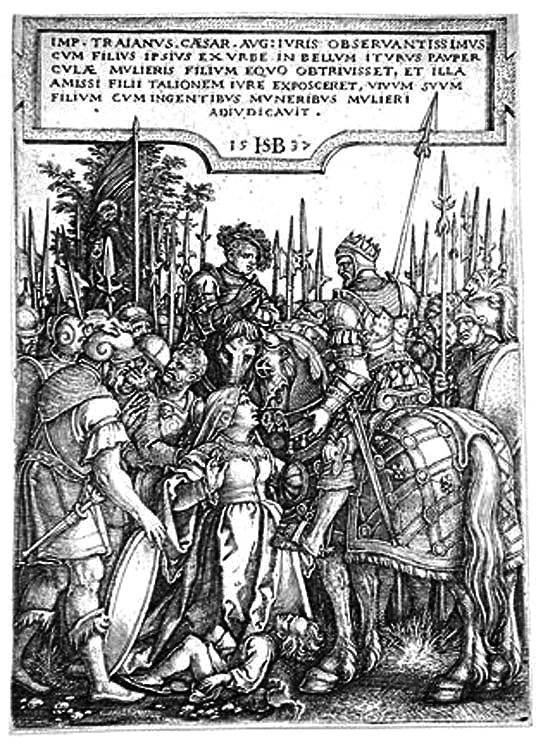 The Justice of Trajan. Engraving.